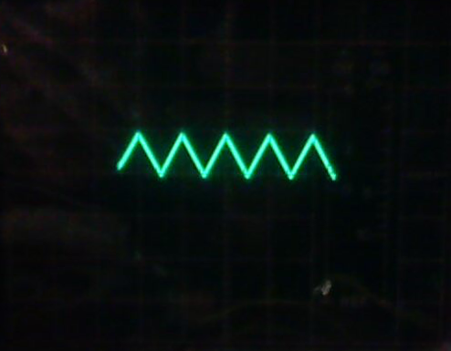 Klon centaur input signal around 1V, using an electronic audio signal generator.